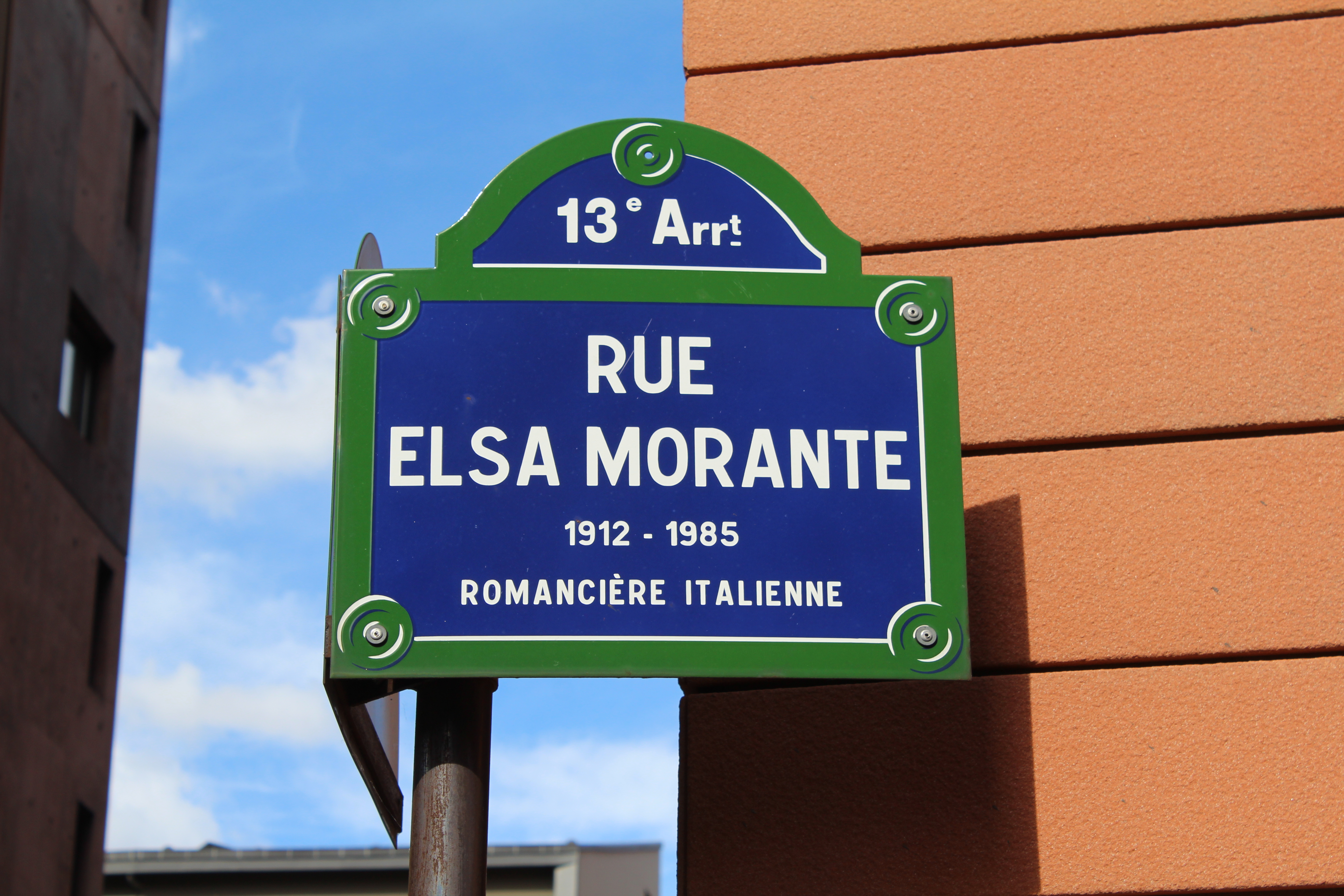 Street sign of Elsa Morante street in Paris, France.